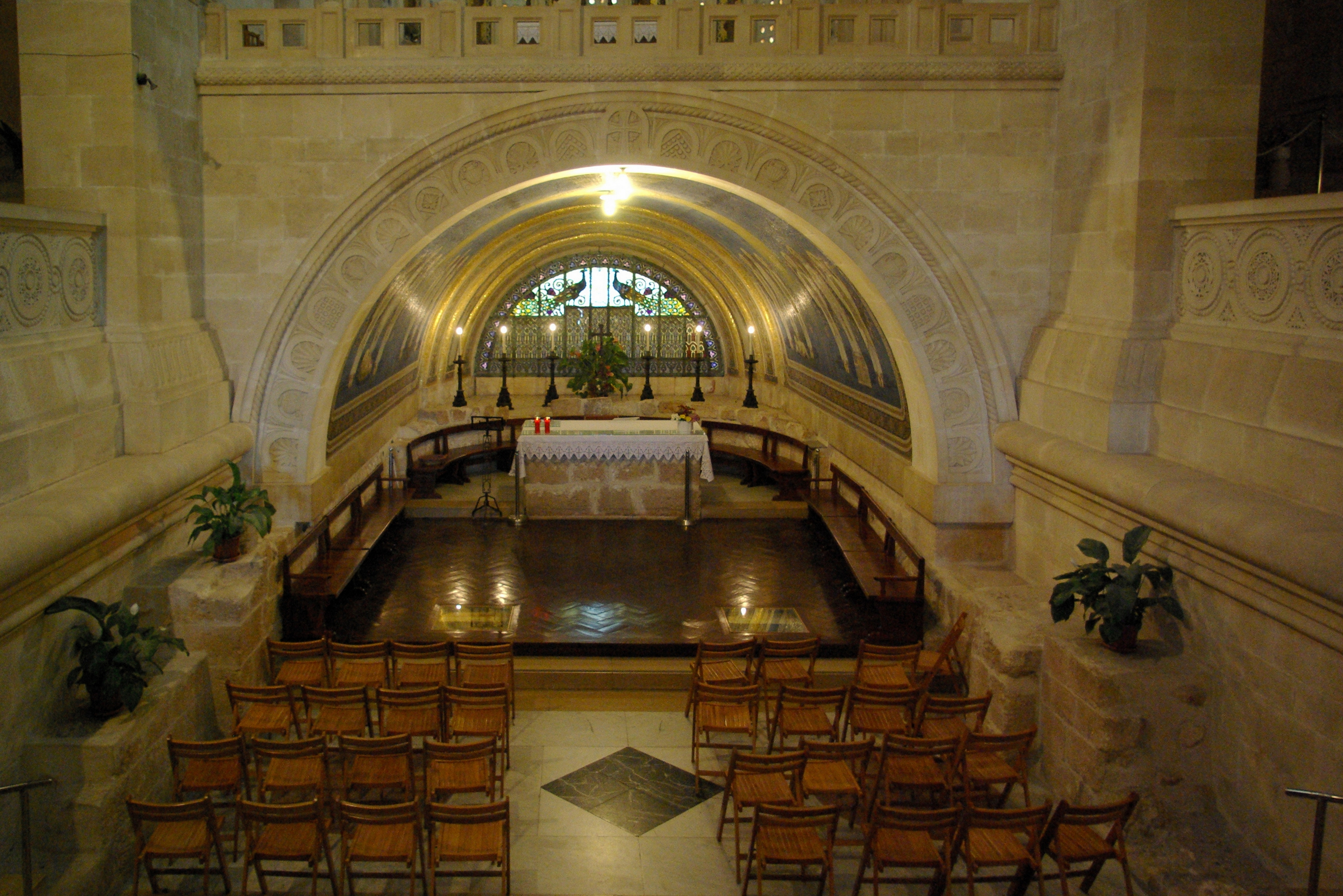 Church of Transfiguration, Mount Tabor